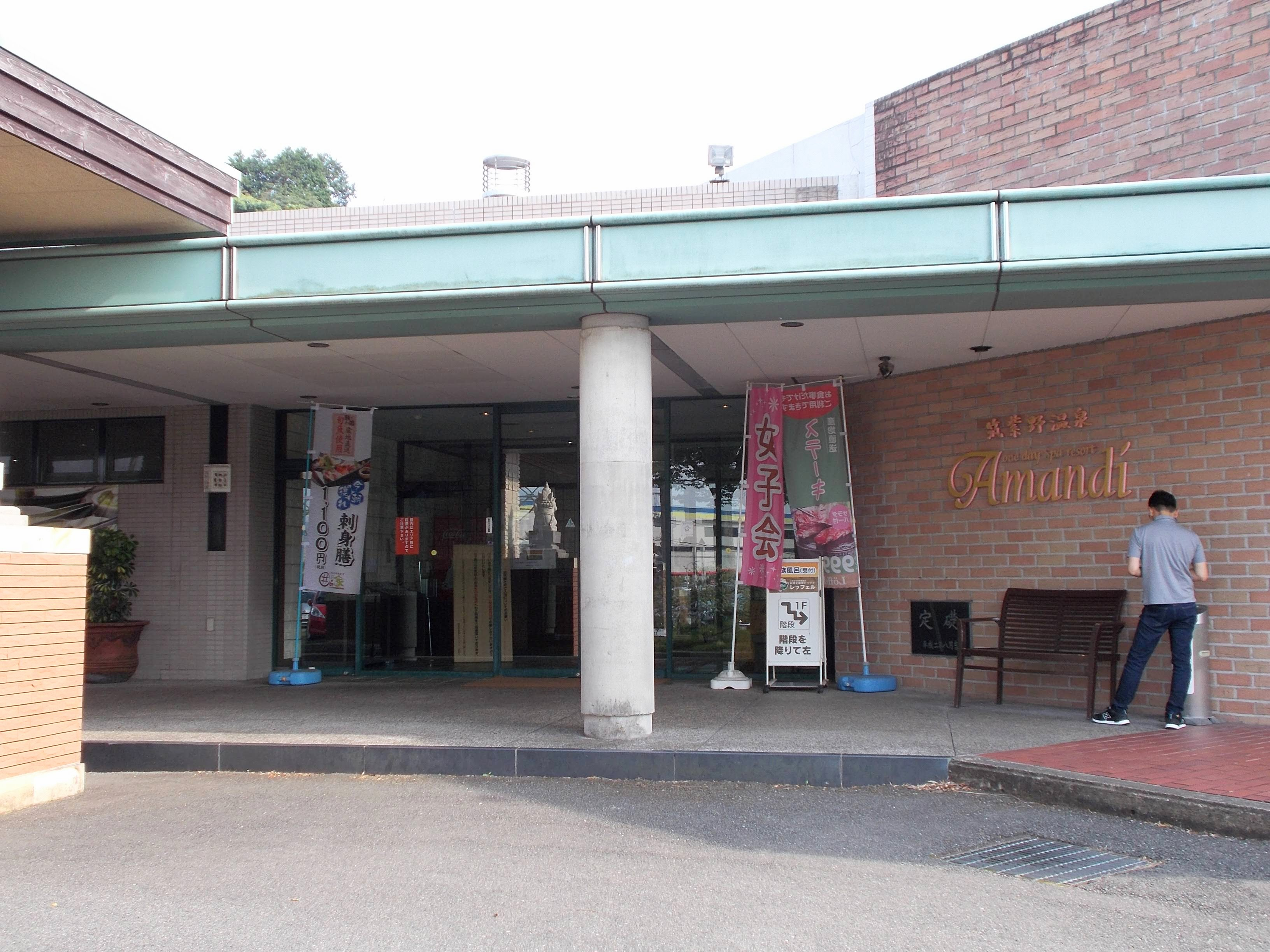 Amandi, 1-day onsen facilities located on the boarder between Chikushino, Fukuoka and Kiyama, Saga, Japan